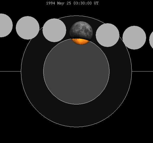 May 1994 lunar eclipse chart of moon's partial lunar eclipse path through the earth's shadow. thumb